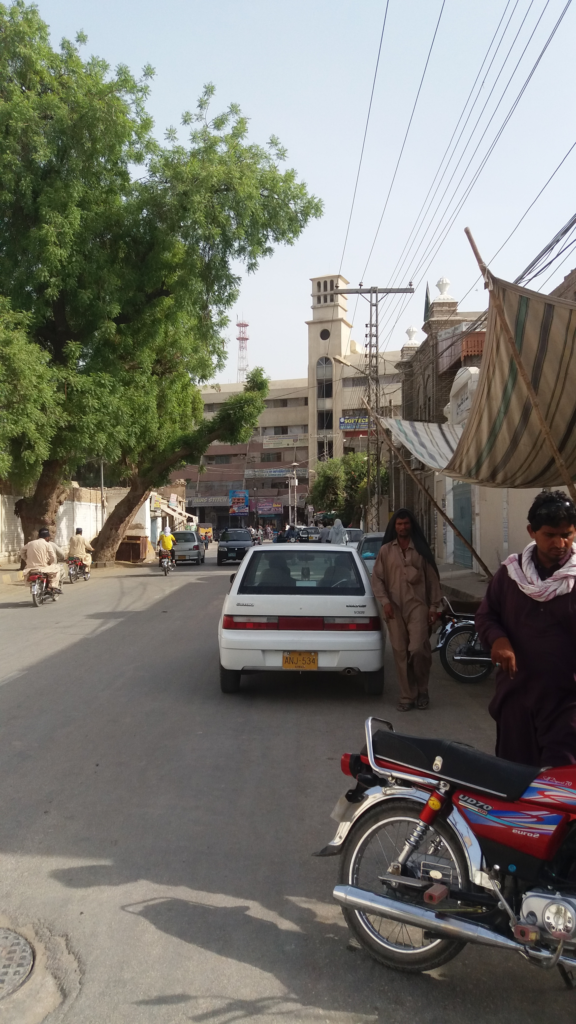 Civic centre